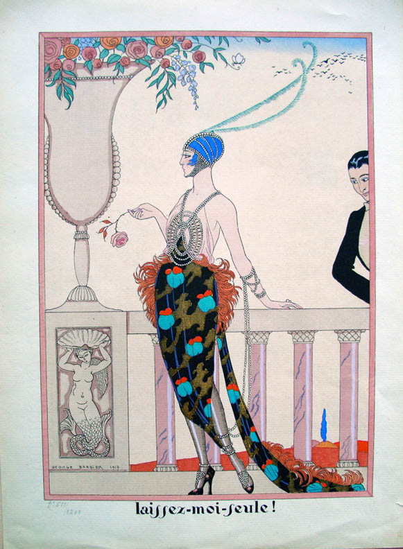 ”Leave me alone!” by George Barbier, from the magazine Les feuillets d’art, 1919, Vol. 2.